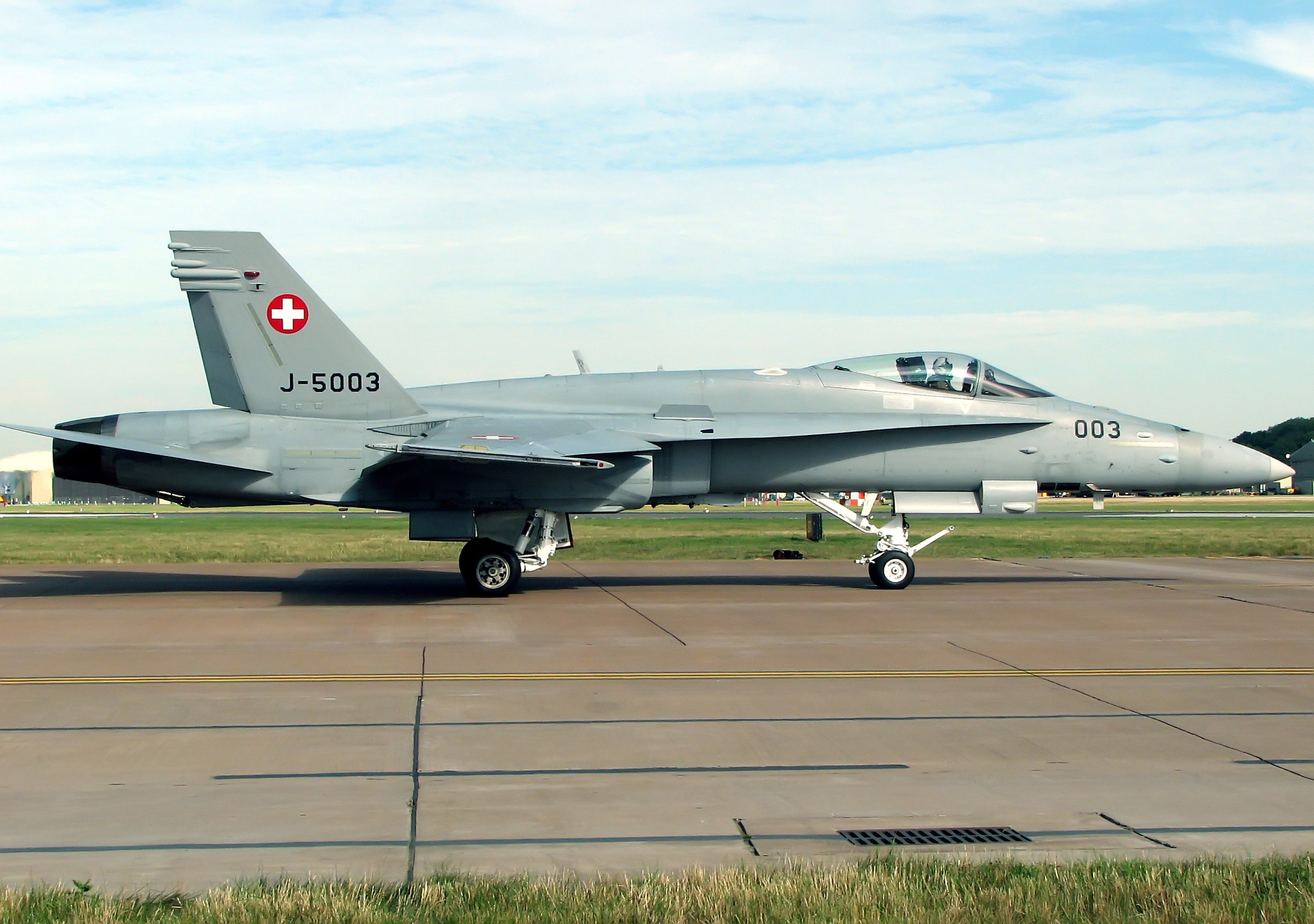 F/A-18C Hornet (identifier J5003) of the Swiss Air Force taxis for takeoff at the Royal International Air Tattoo, Fairford, Gloucestershire, England. Photographed by Adrian Pingstone on July 17th 2006 and released to the public domain.